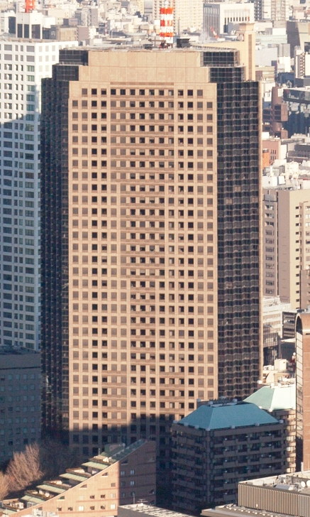 Shiroyama Trust Tower, Toranomon, Tokyo